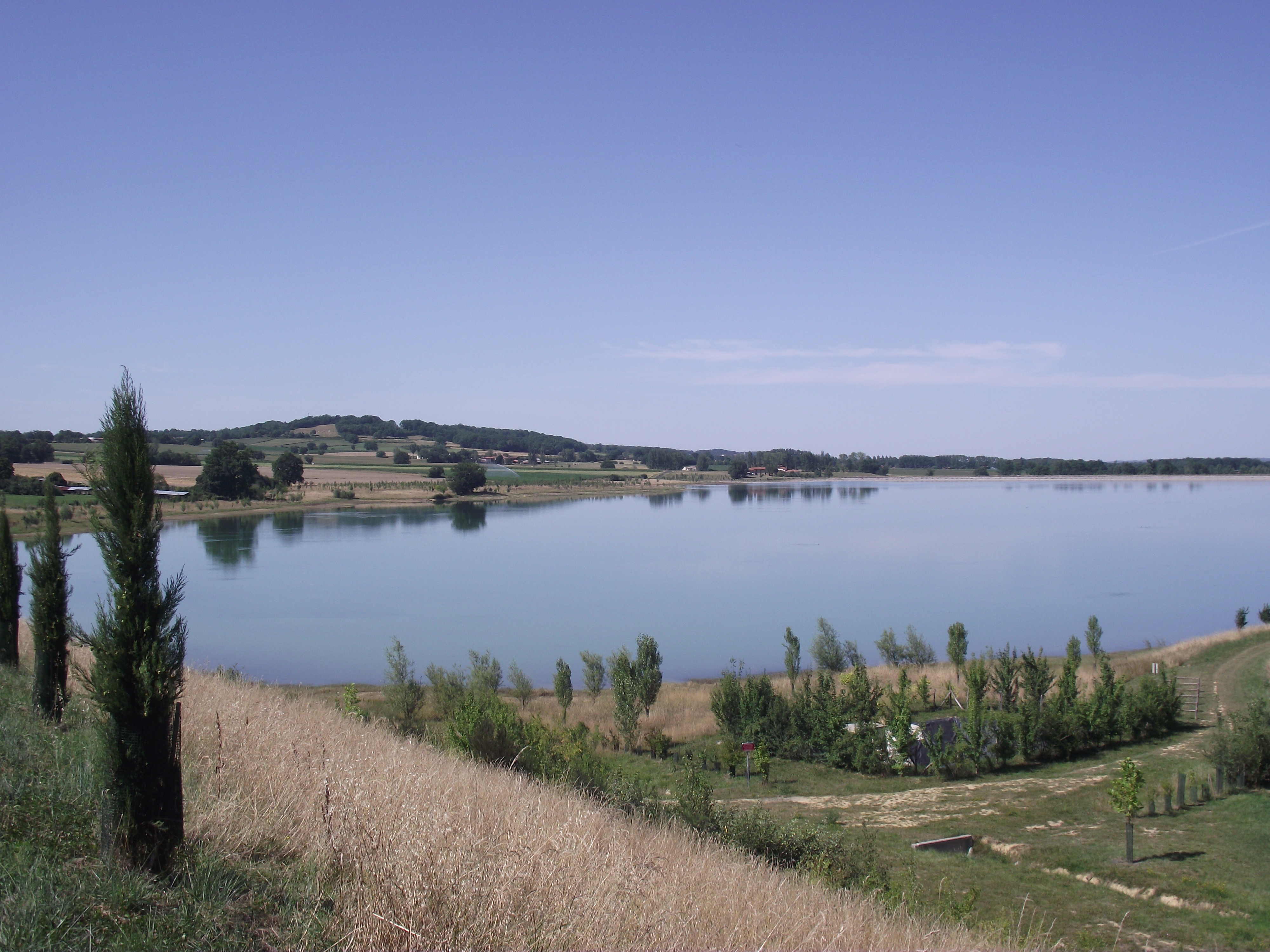 Castelnau-Magnoac lake, Hautes-Pyrénées, France